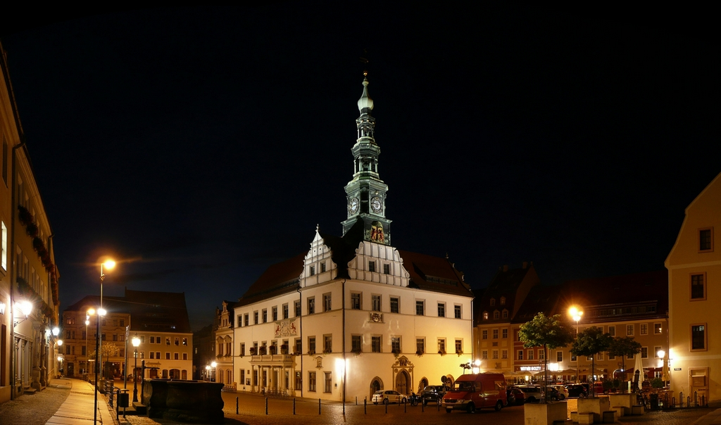 Pirna, Am Markt No. 1/2, town-hall, cultural heritage monument.